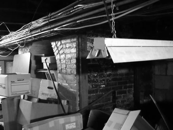 Tunnel entering a Federalist home through the fireplace arch in the basement. This eliminated the flashing problem in between home and tunnel and also created a draw system through the flue above to bring fresh air into the tunnels.